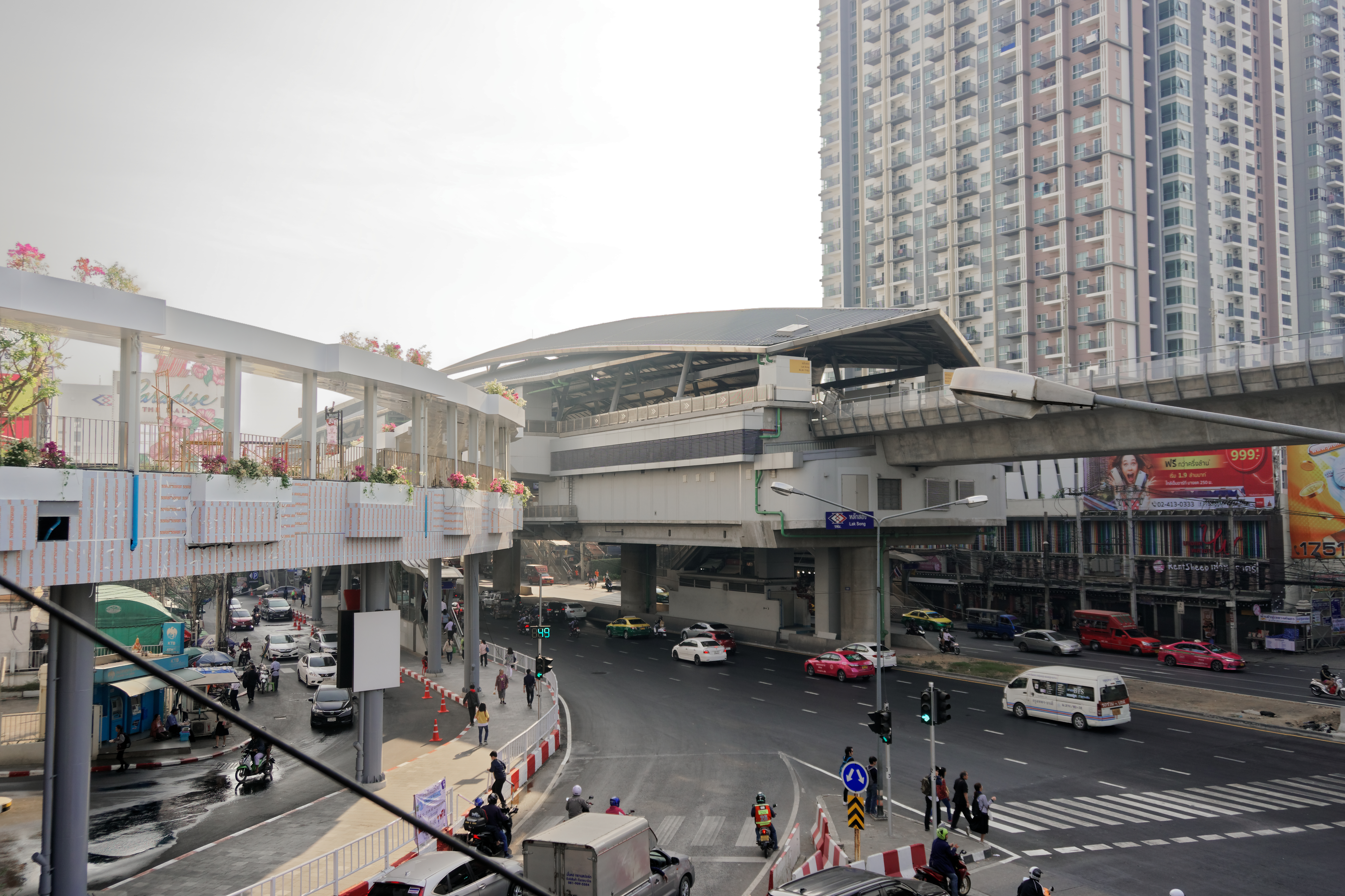 MRT Lak Song station: Station. View from above Phetkasem - Kanchanaphisek Road intersection (Overall view with the Skywalk)